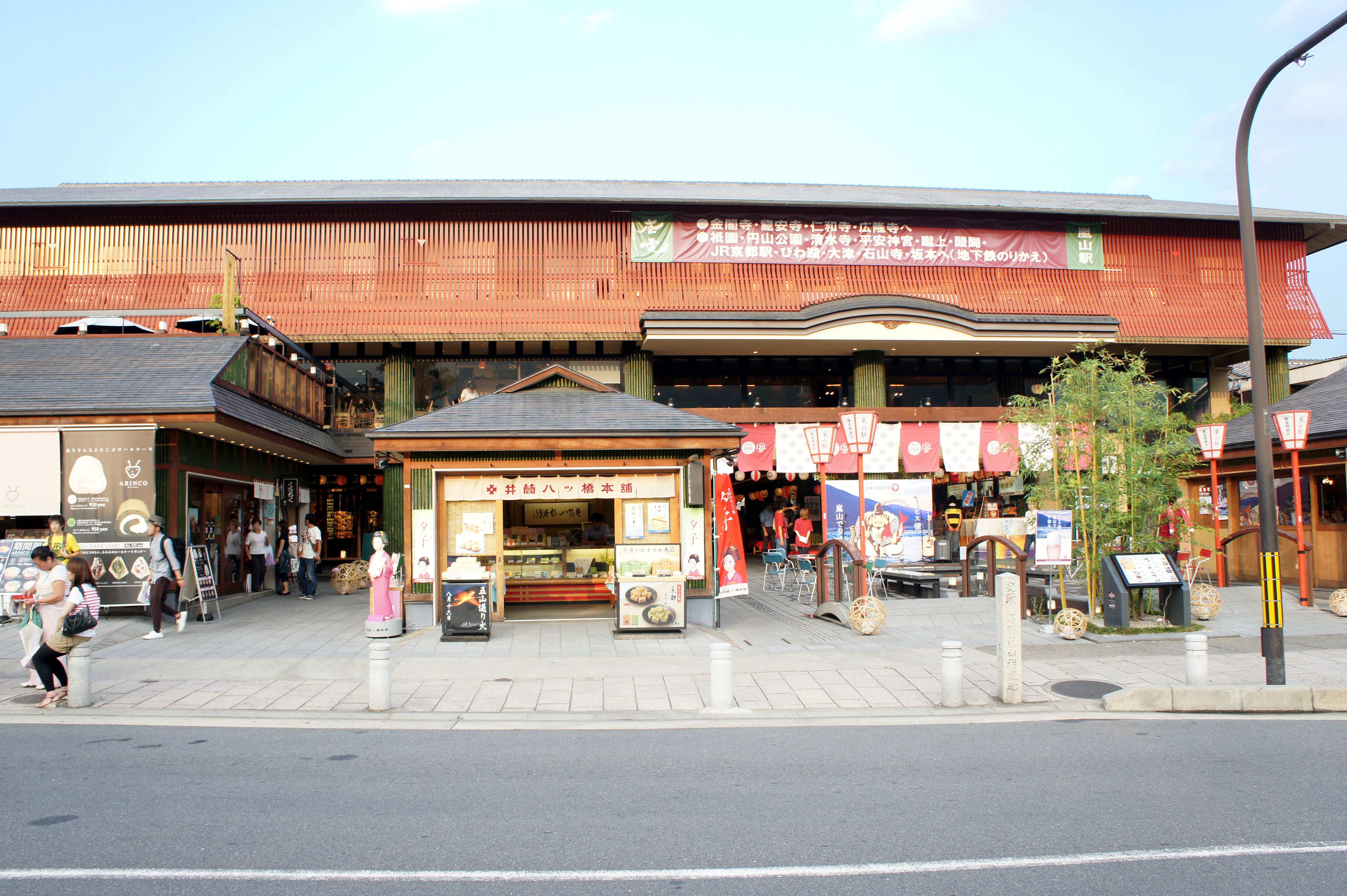 Keifuku Arashiyama Station, Uko-ku Kyoto-City Kyoto JAPAN.